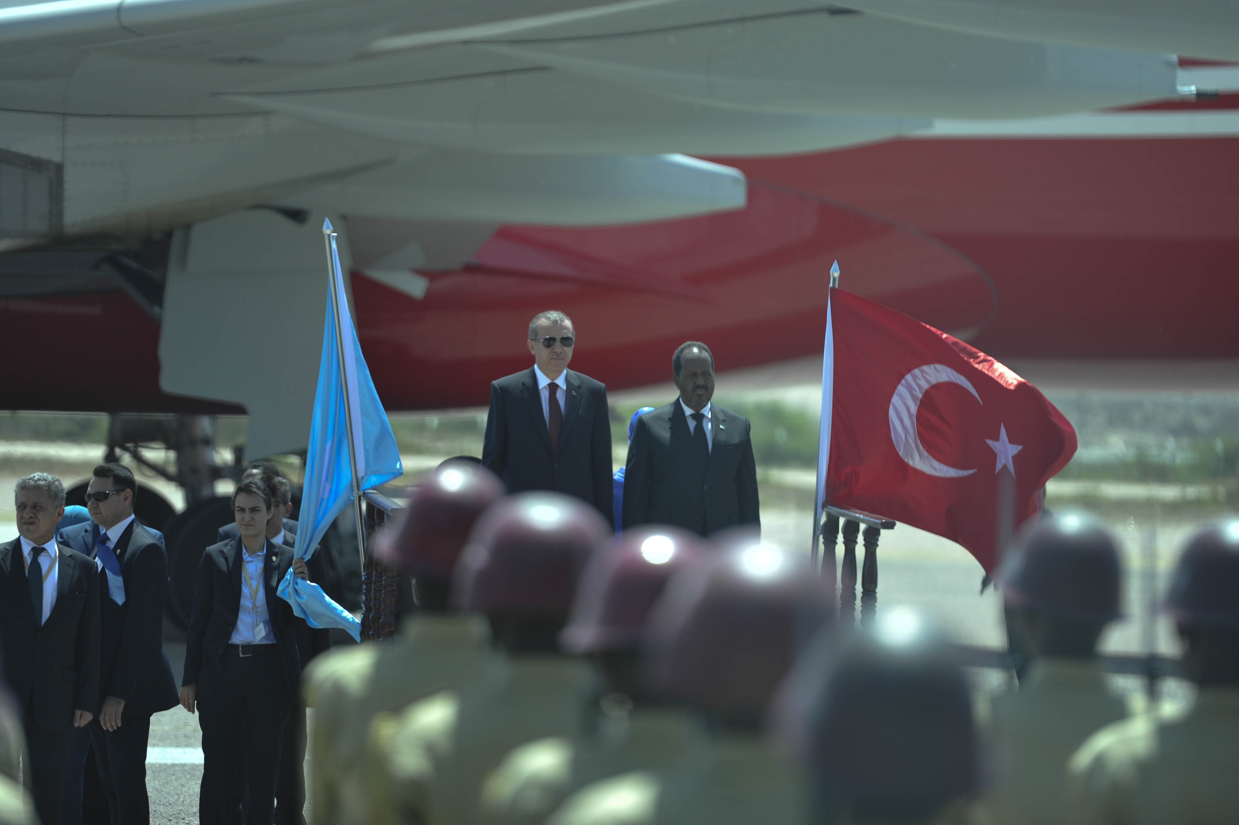 Turkish President Recep Tayyip Erdogan and Somalia President Hassan Sheik Mohamud listen to their countries' national anthems following Erdogan's arrival at Aden Abdulle International Airport in Mogadishu on January 25, 2015. AMISOM Photo / Ilyas Ahmed